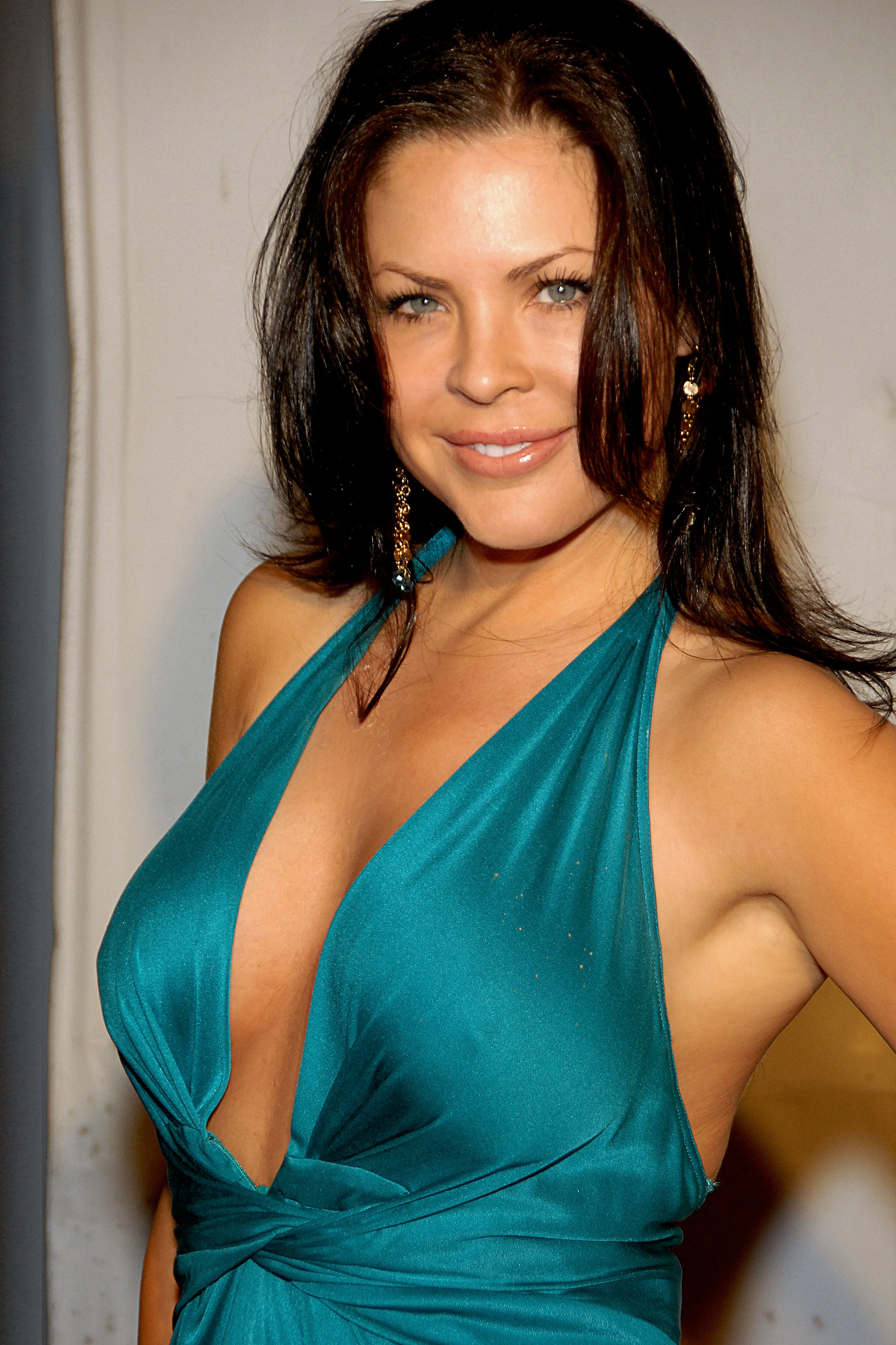 Christa Campbell attending Maxim Magazine's 10th Annual Hot 100 Celebration, Santa Monica, CA on May 13, 2009 - Photo by Glenn Francis of